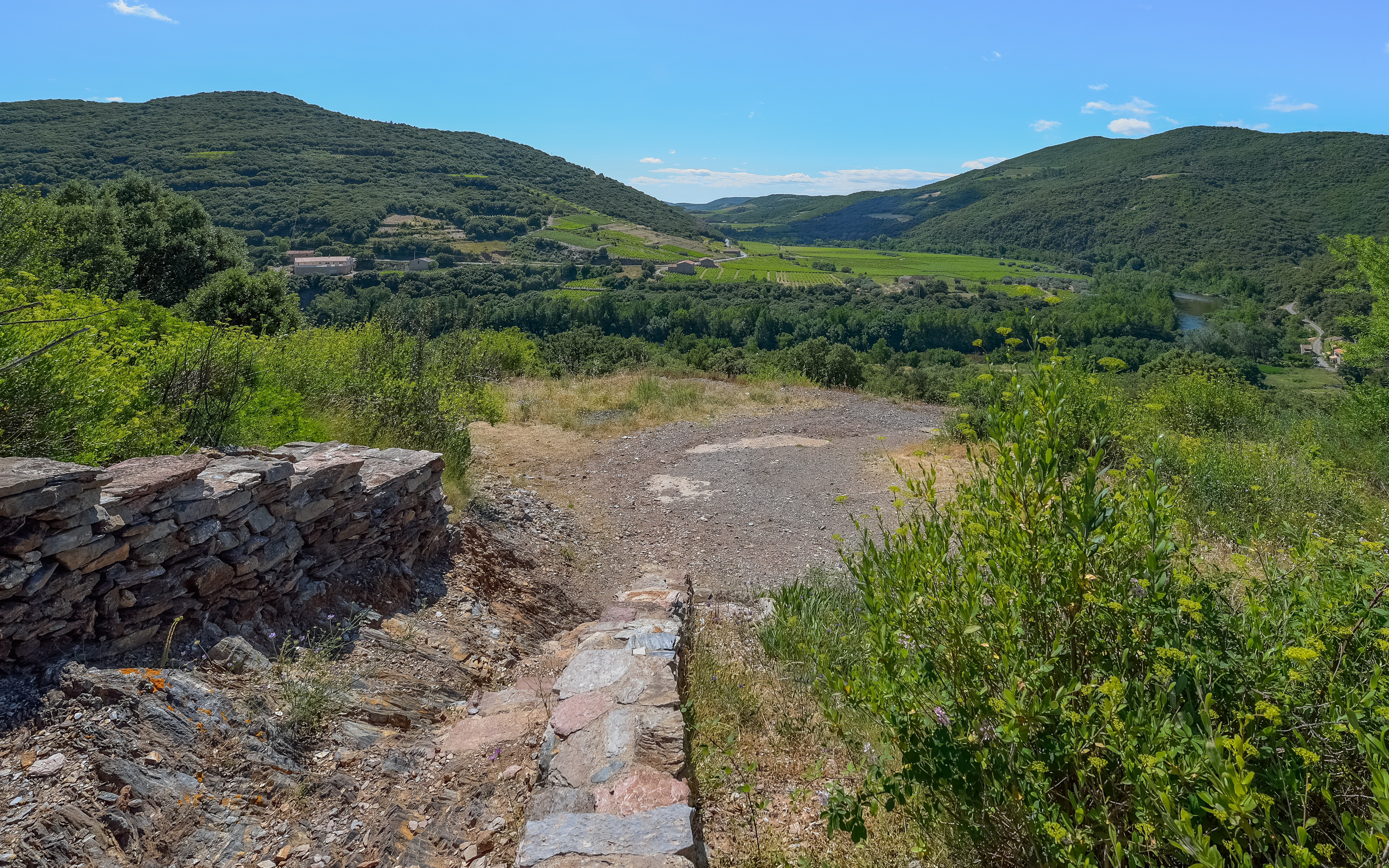 The Orb River and Valley near the hamlet of Ceps. At the center, there is the Plo de Ceps, witch is the name given to the convex bank of this meander, maked by alluvium and used in viticulture. Roquebrun, Hérault, France. Haut-Languedoc Regional Natural Park.